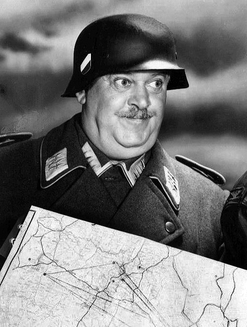 Photo of John Banner as Sergeant Schultz from the television comedy Hogan's Heroes.